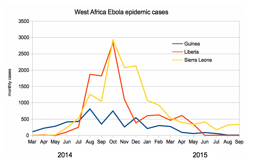 This shows the monthly aggregate in Ebola cases in the West Africa epidemic 2014-15. The data is drawn from the WHO Situation reports (apps.who.int) with early data from CDC